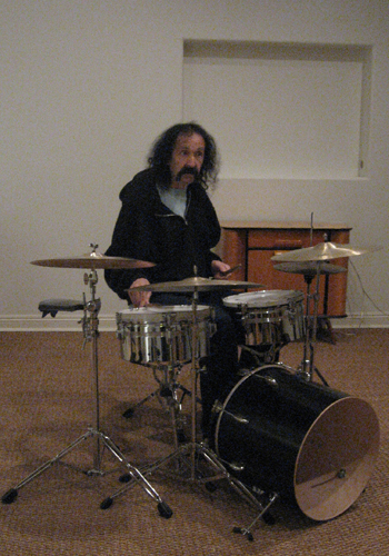 Joe Gallivan playing drums, photo taken in 2011